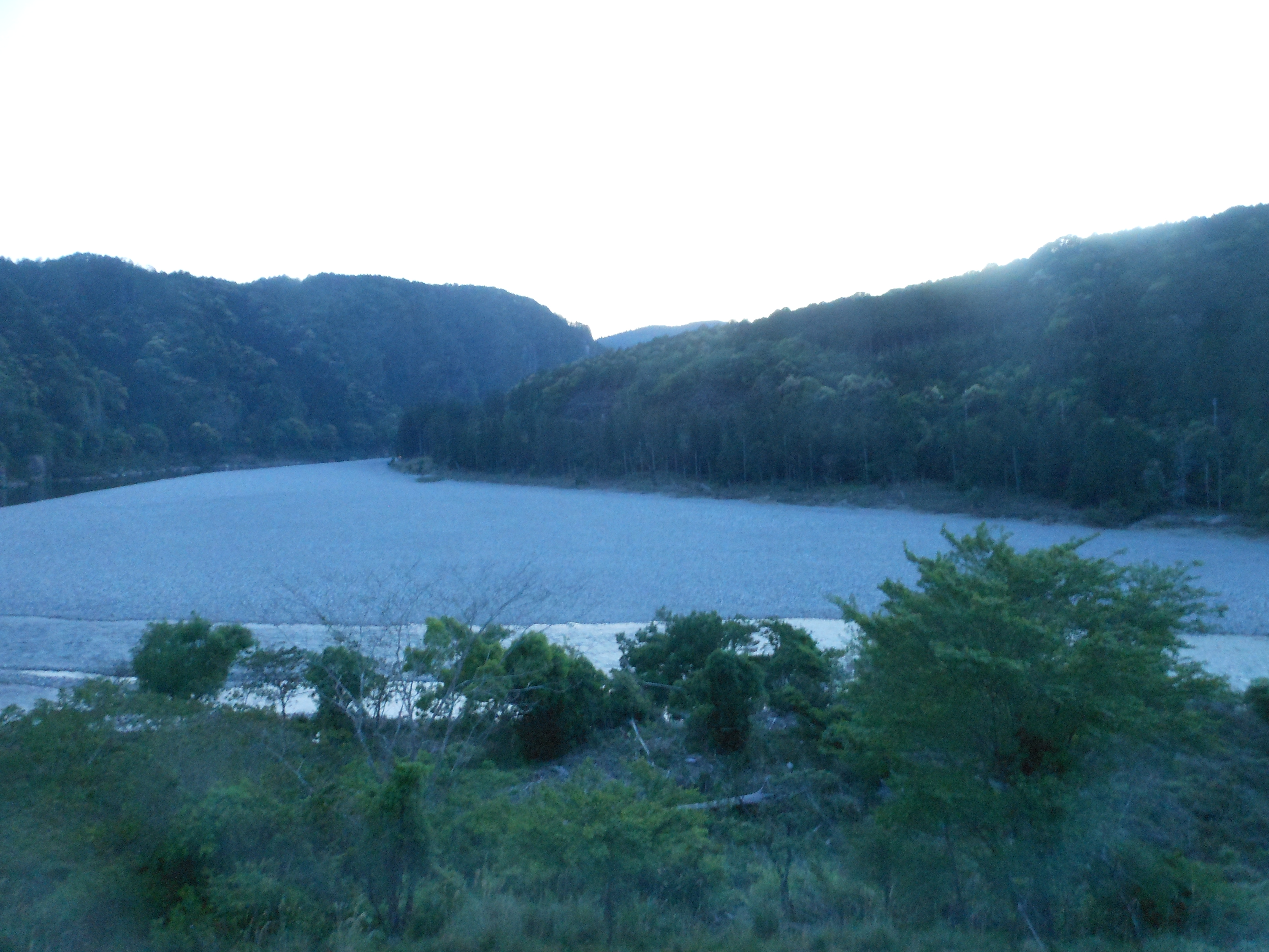 This is a landscape of Kumanogawacho-Shimazu, Shingu, Wakayama view from Seiryuso in Kiwacho-Kogawaguchi, Kumano, Mie, Japan.